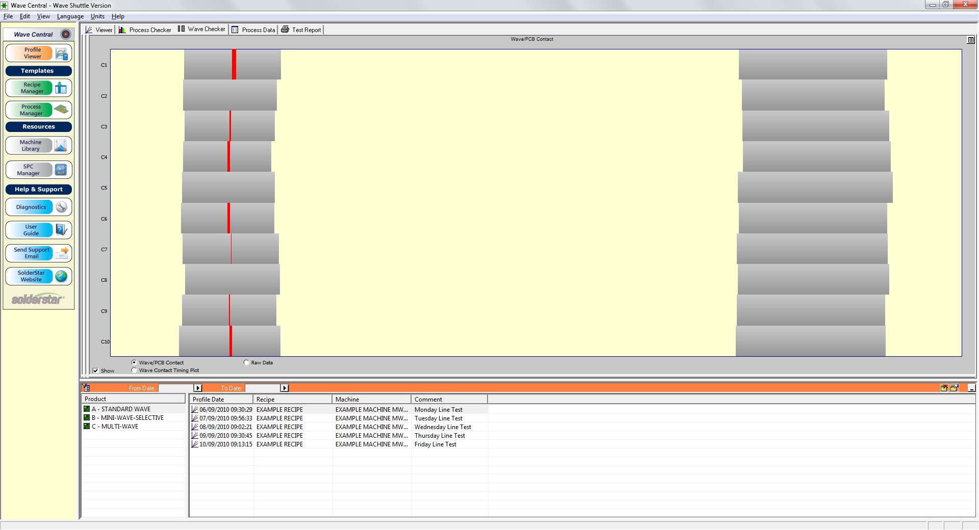 Main wave and chip wave contact area captured by a Solderstar Waveshuttle instrument